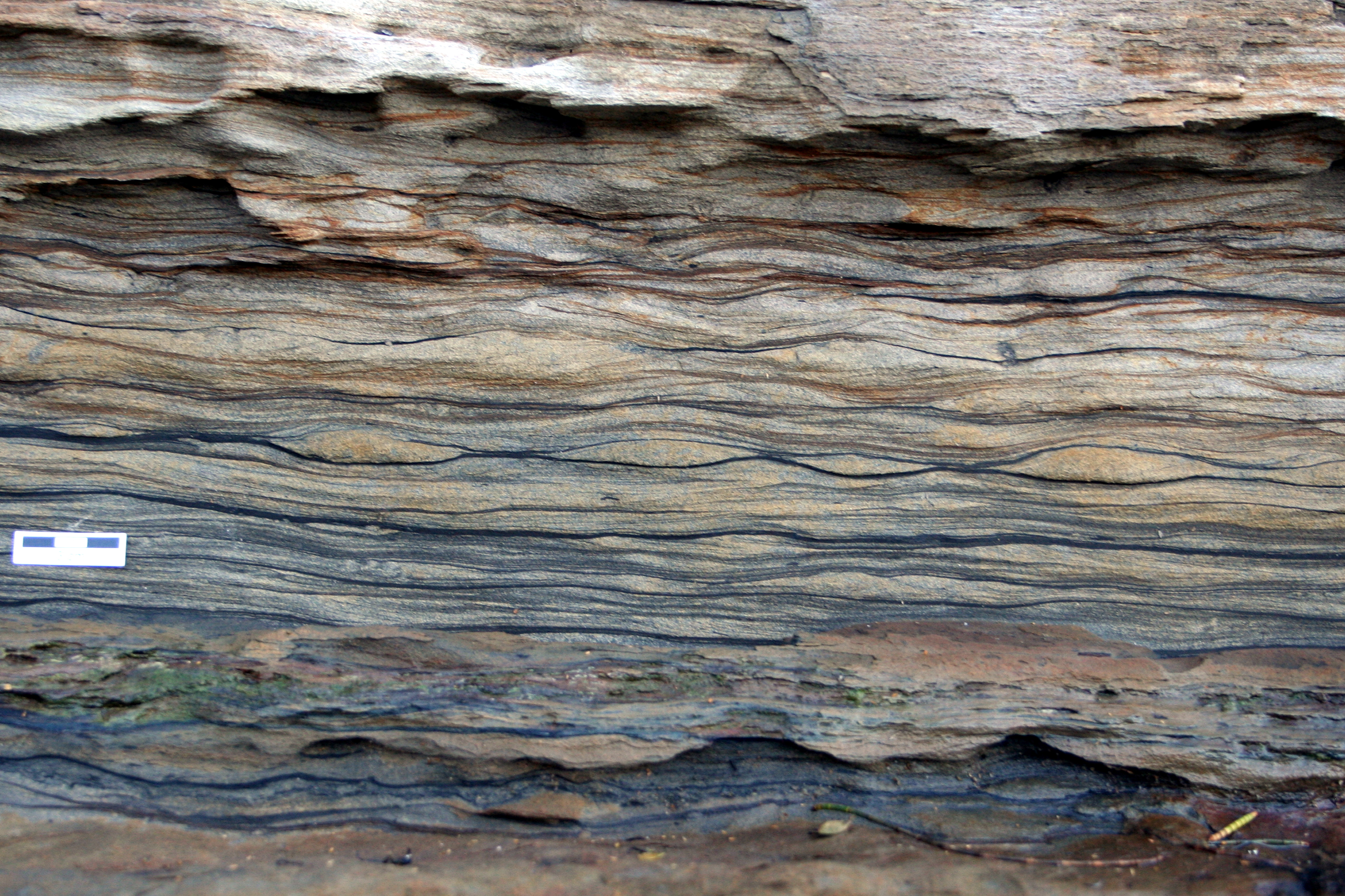 Cross-sectional view of heterolithic bedding in tidally-influenced shallow marine strata of the Pebbley Beach Formation (Permian), New South Wales. Coordinates are approximate.